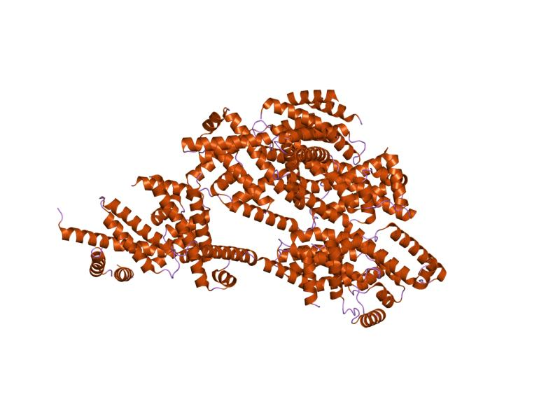 Cartoon representation of the molecular structure of protein registered with 1rp3 code.